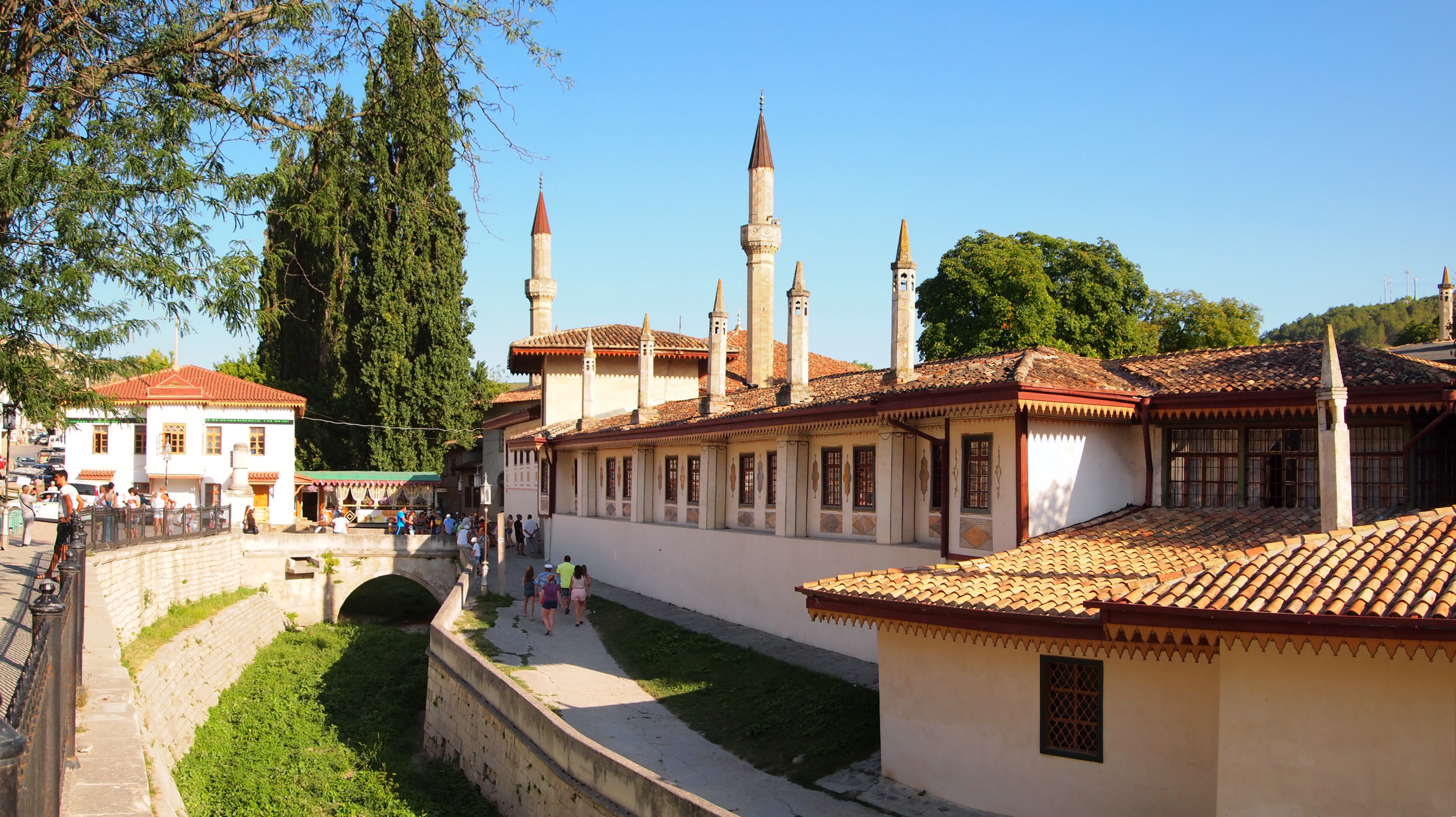 Bakhchisarai Palace. This photograph was taken with an Olympus E-PL1